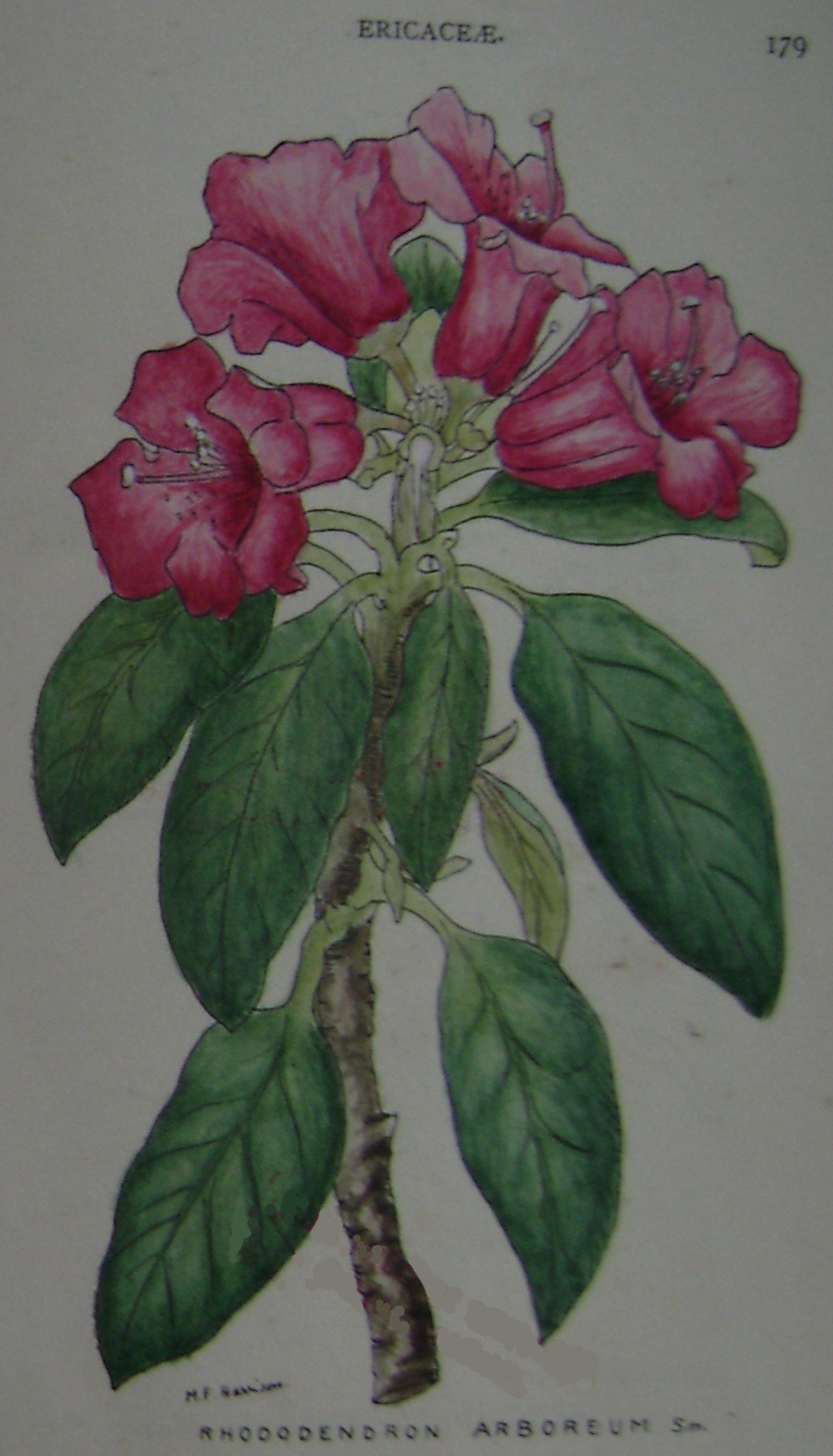 Hand colored lithograph of Rhododendron_arboreum